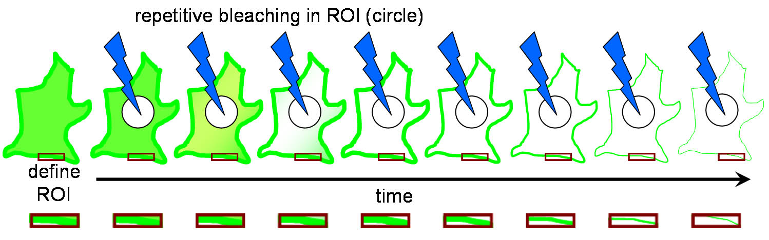 The effects of photobleaching on a region of interest after multiple bleachings